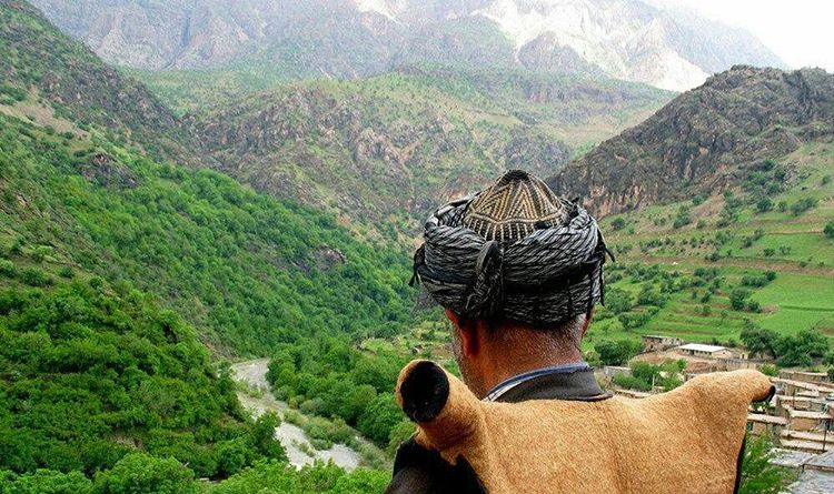 A Hawrami man with traditional headdress, Kurdistan